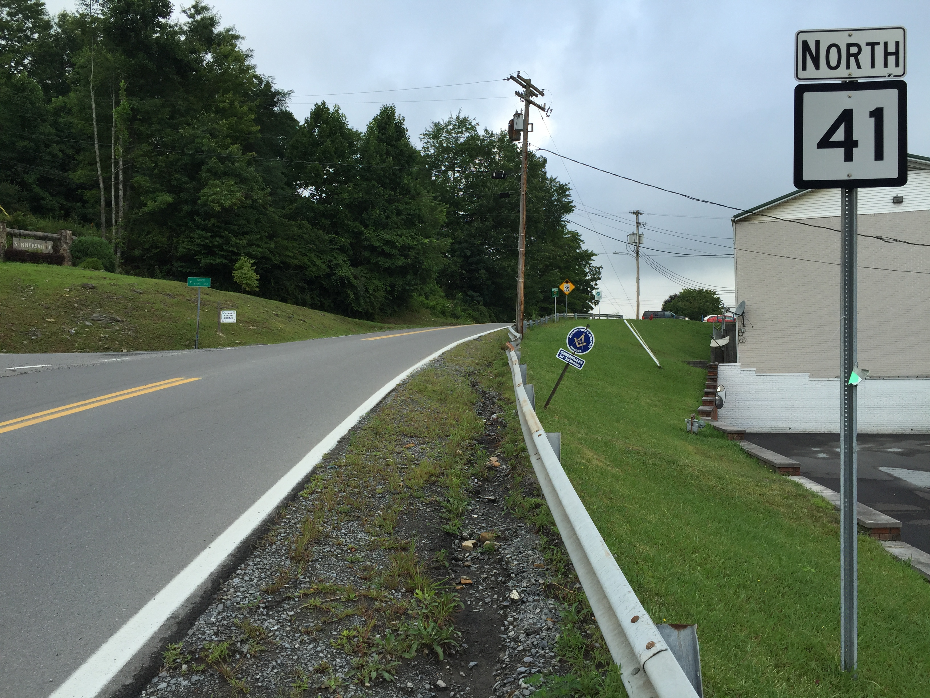 View north along West Virginia State Route 41 (Broad Street) at U.S. Route 19 in Summersville, Nicholas County, West Virginia